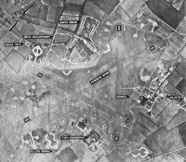 Postwar aerial photograph of Tibenham Airfield, England.